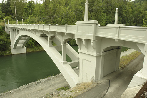 jo1768 Concrete WA Washington Puget Sound Energy Plant and Visitor Center 1916 Thompson Bridge AJD53073 Concrete WA